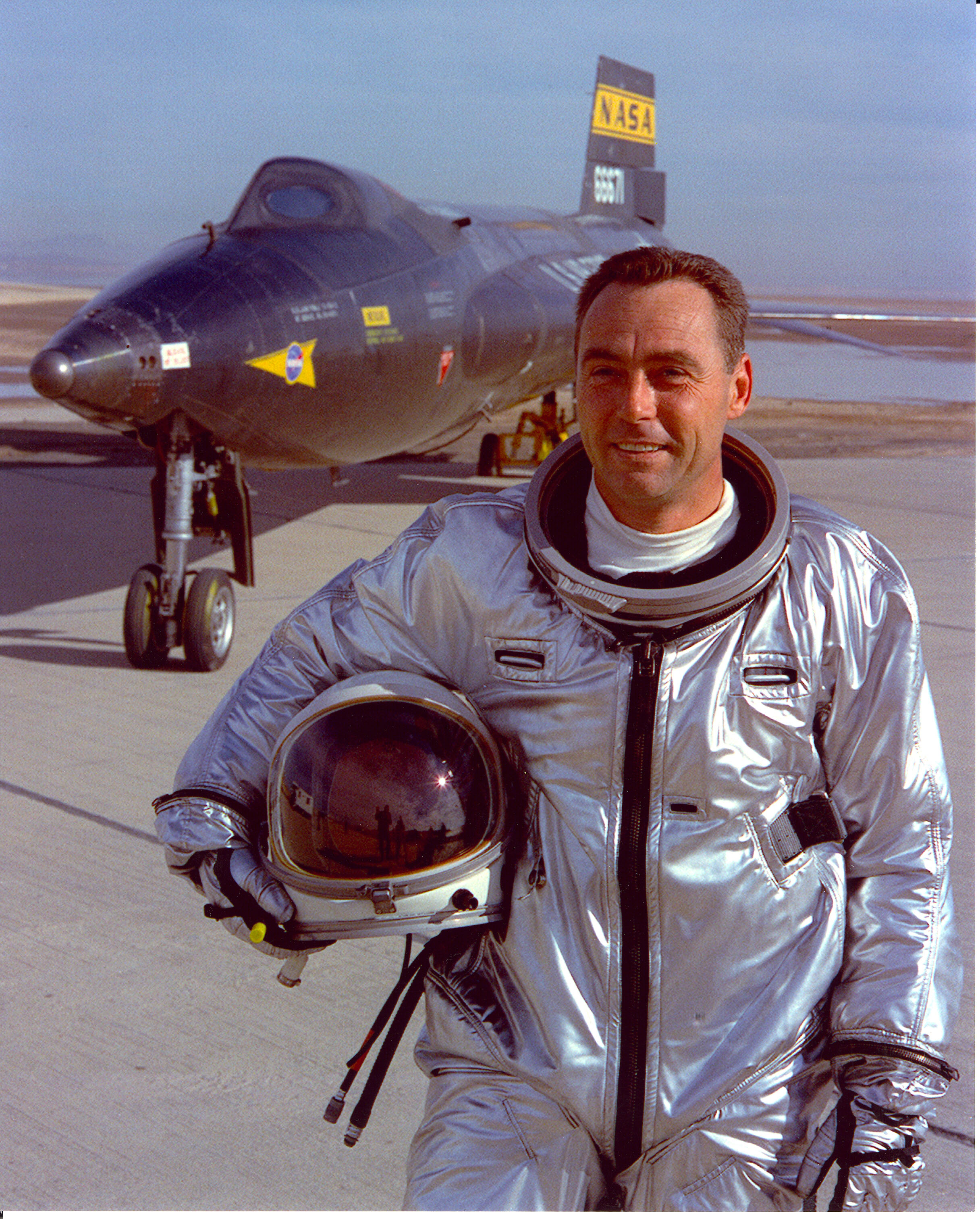 On Oct. 3, 1967, Maj. William "Pete" Knight flew the modified X-15A-2 to its maximum speed of Mach 6.7 or 4,520 mph, a speed which remains the fastest anyone has ever flown an aircraft.